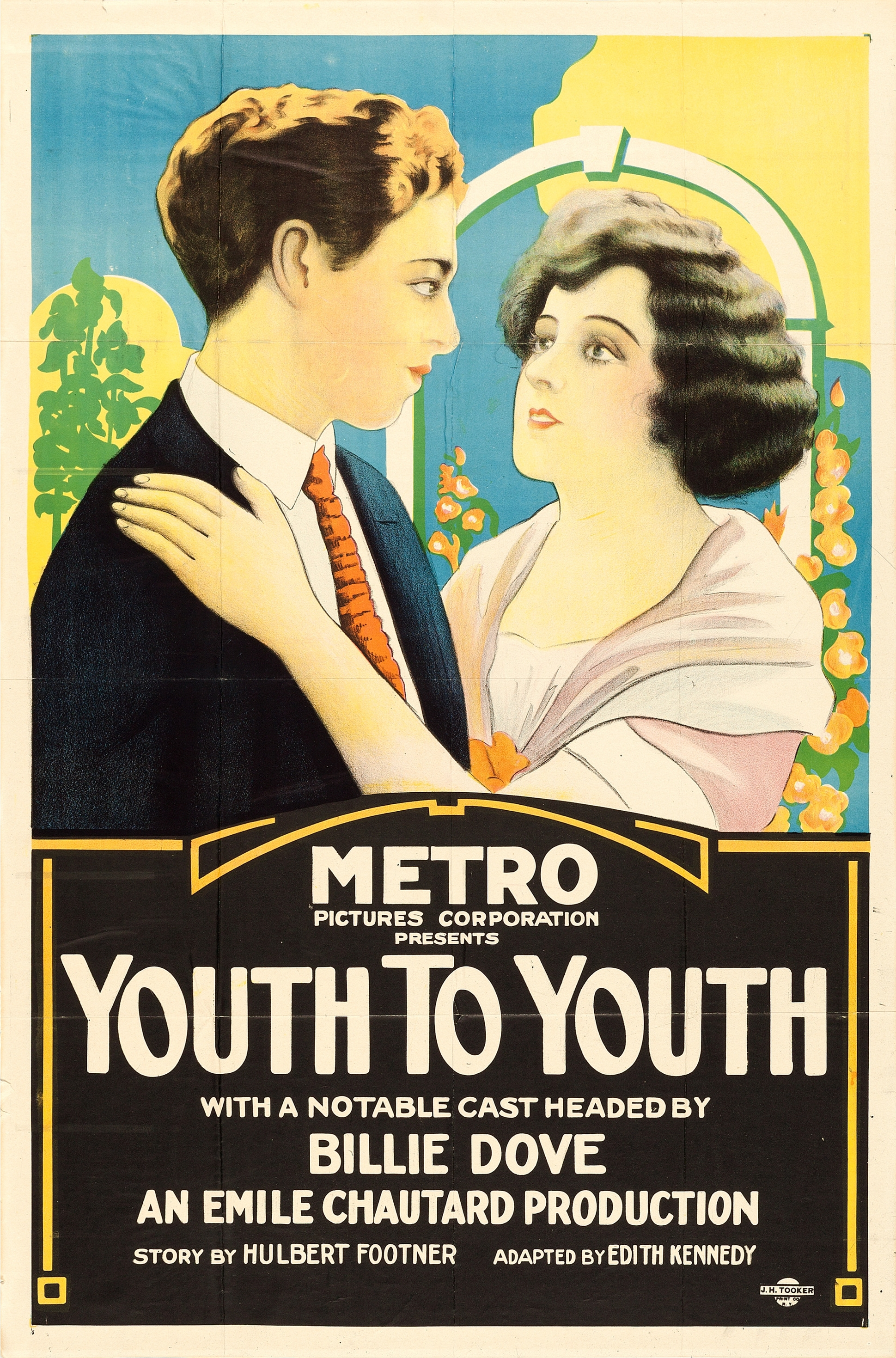 This is a poster for the 1922 American silent drama film Youth to Youth.